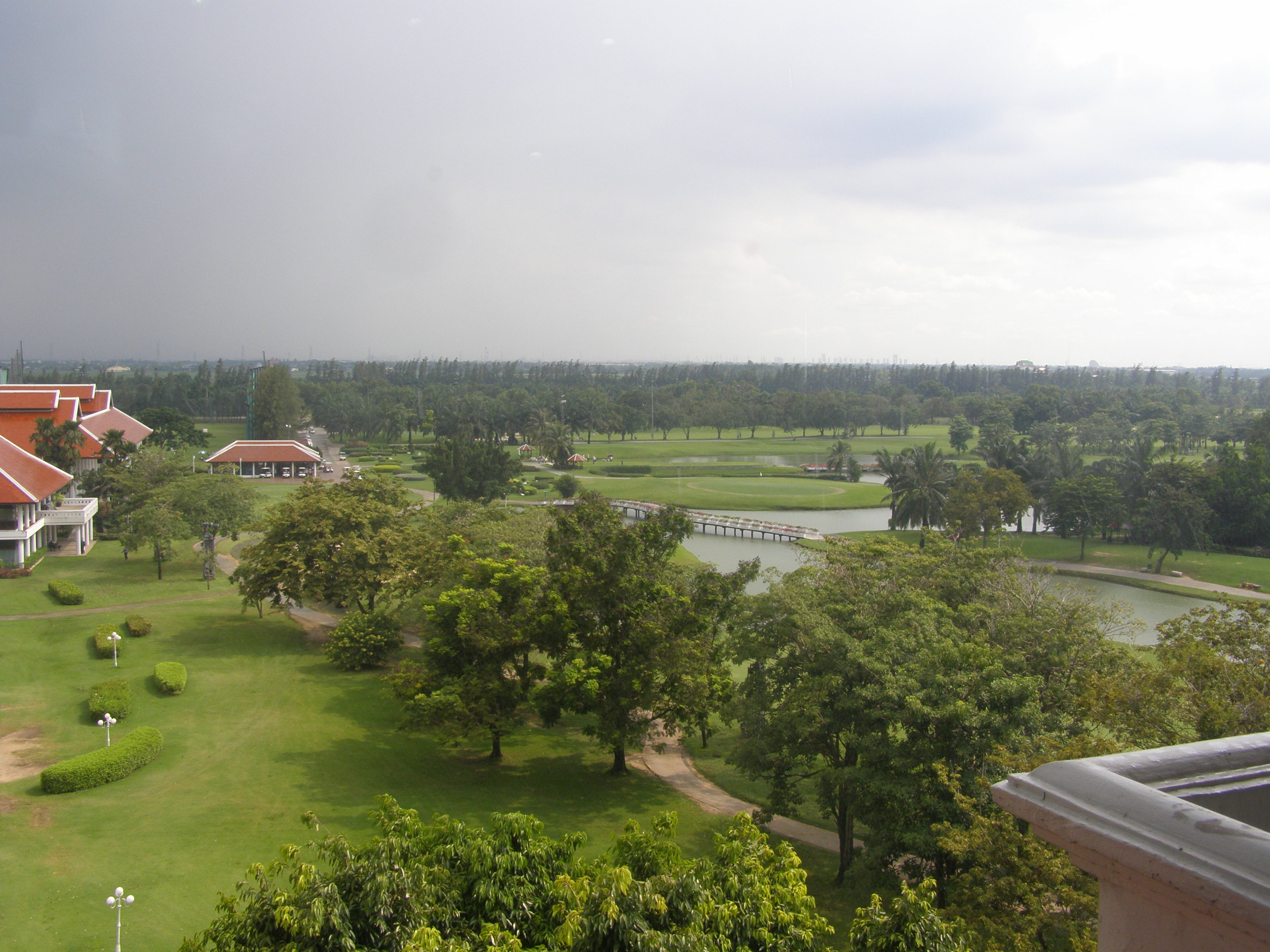 Pinehurst Golf By Jamrat